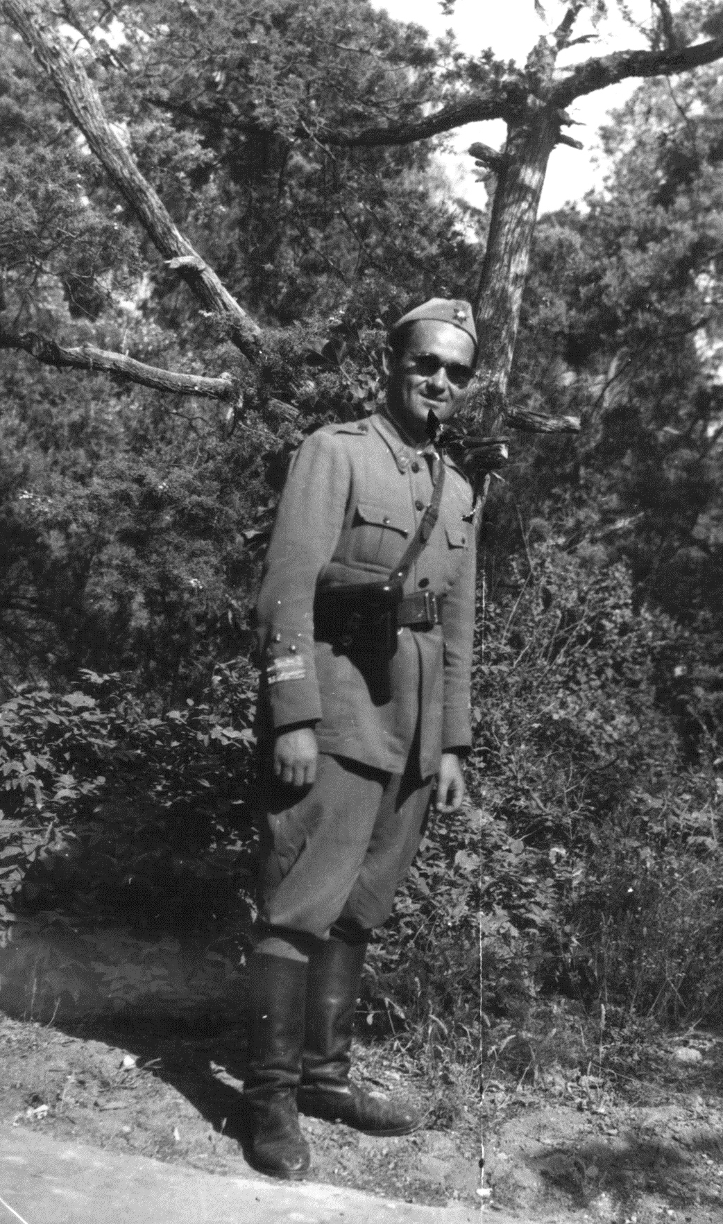 Miloje Milojević in Bari